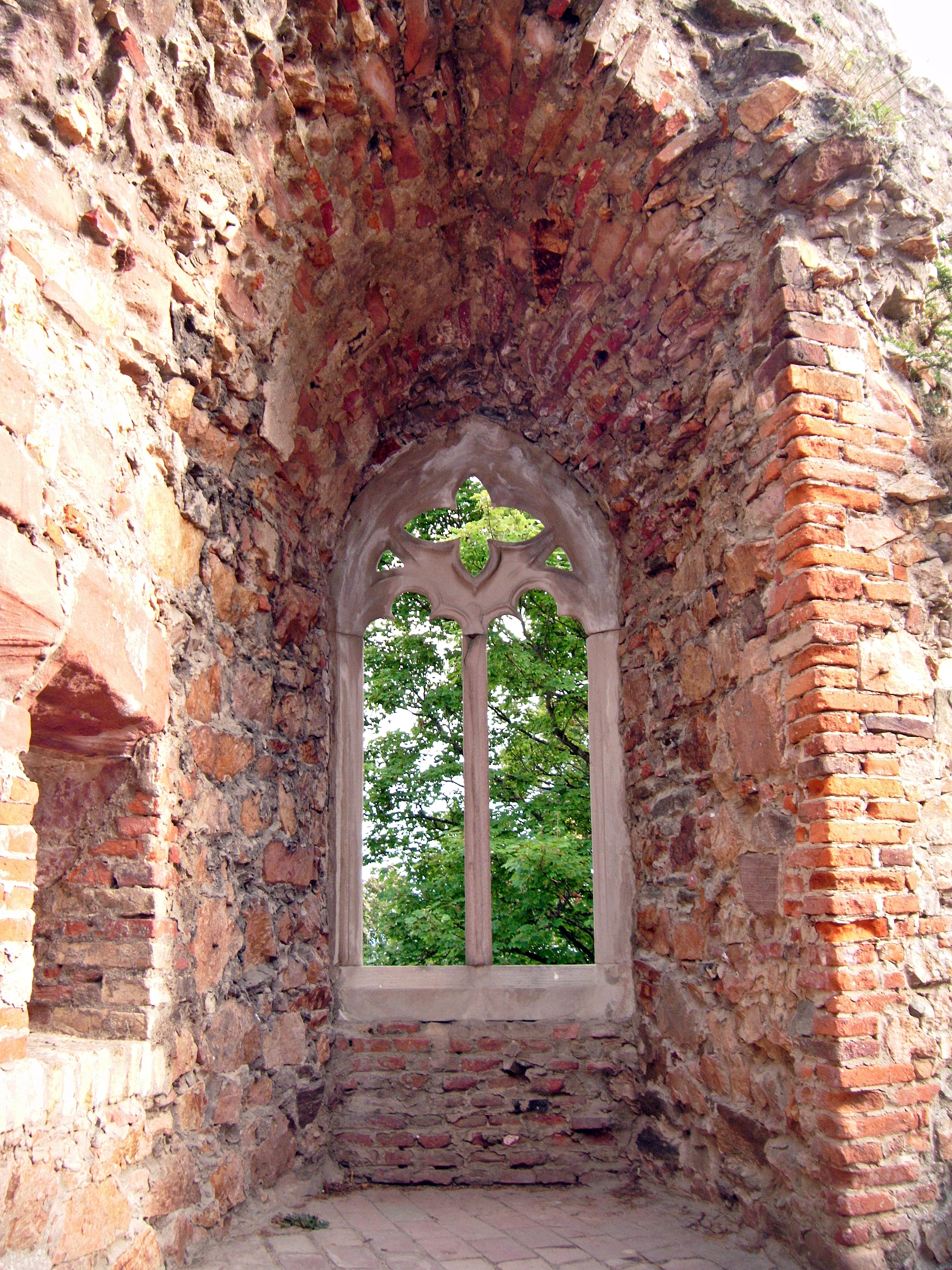 Auerbacher Schloss, Kapellenfenster